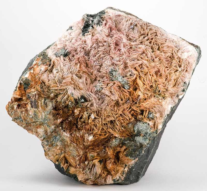 Margarite Locality: Chester Emery Mines, Chester, Hampden County, Massachusetts, USA (Locality at ) Size: 13.9 x 12.0 x 8.9 cm. This remarkable specimen features a large display face the size of a big grapefruit covered with upright, platy crystals of margarite. It is extremely rare for margarite to crystallize and 99% of all margarite from there is massive xline material. Margarite is typically found in either masses of platy crystals, intergrown, or what is typical for the location, veins or veinlets. In general, the thicker the better at this location with some of the thicker veins of margarite reaching an inch or two, and maintaining a pink color. This one is atypical, since the margarite looks to have formed along a slip face, allowing the 3D growth; the one here is thus a little unusual based on other historic specimens from this locality in East Coast collections (per Jim Chenard, pers. comm.). It also has some diaspore and rutile in association. Ex. Academy of Natural Sciences Philadelphia Collection.